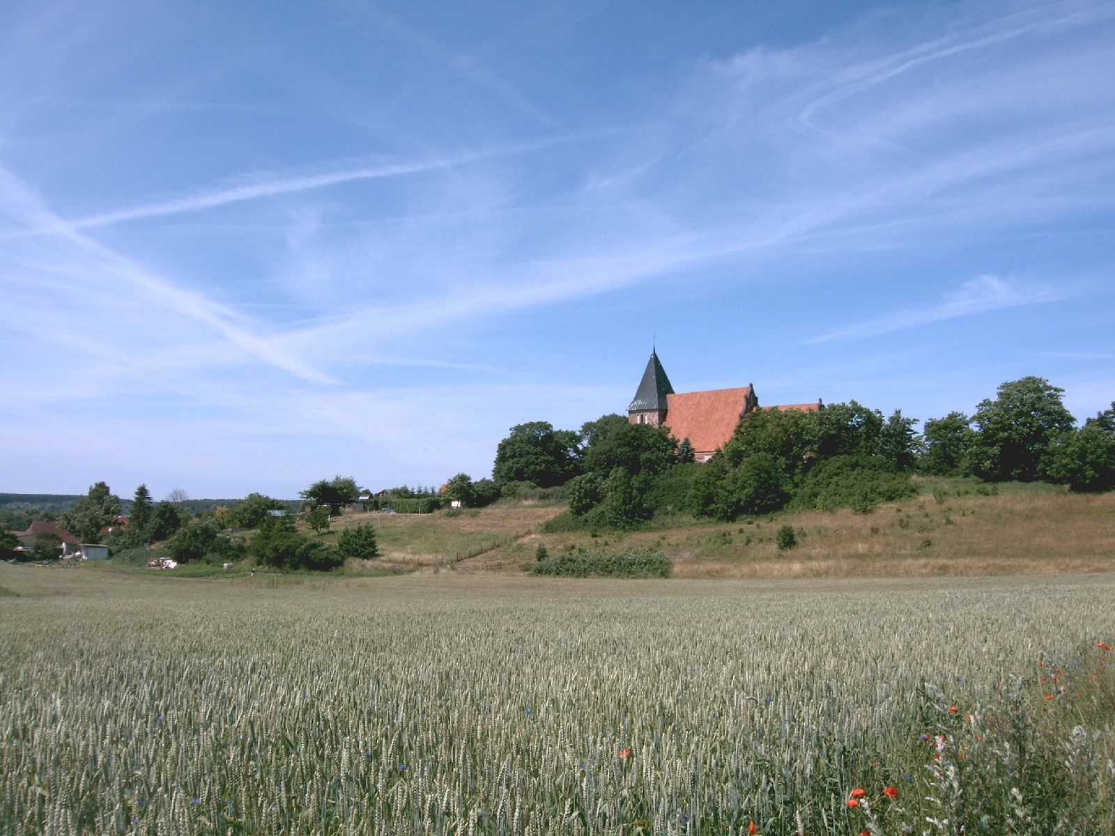 The church of Bobbin, viewed from South.